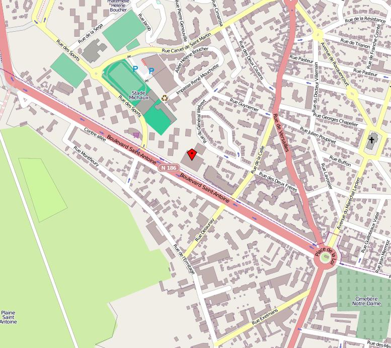 Location of the planned site of the Paris France Temple, a planned temple of The Church of Jesus Christ of Latter-day Saints This map may be incomplete, and may contain errors. Don't rely solely on it for navigation.